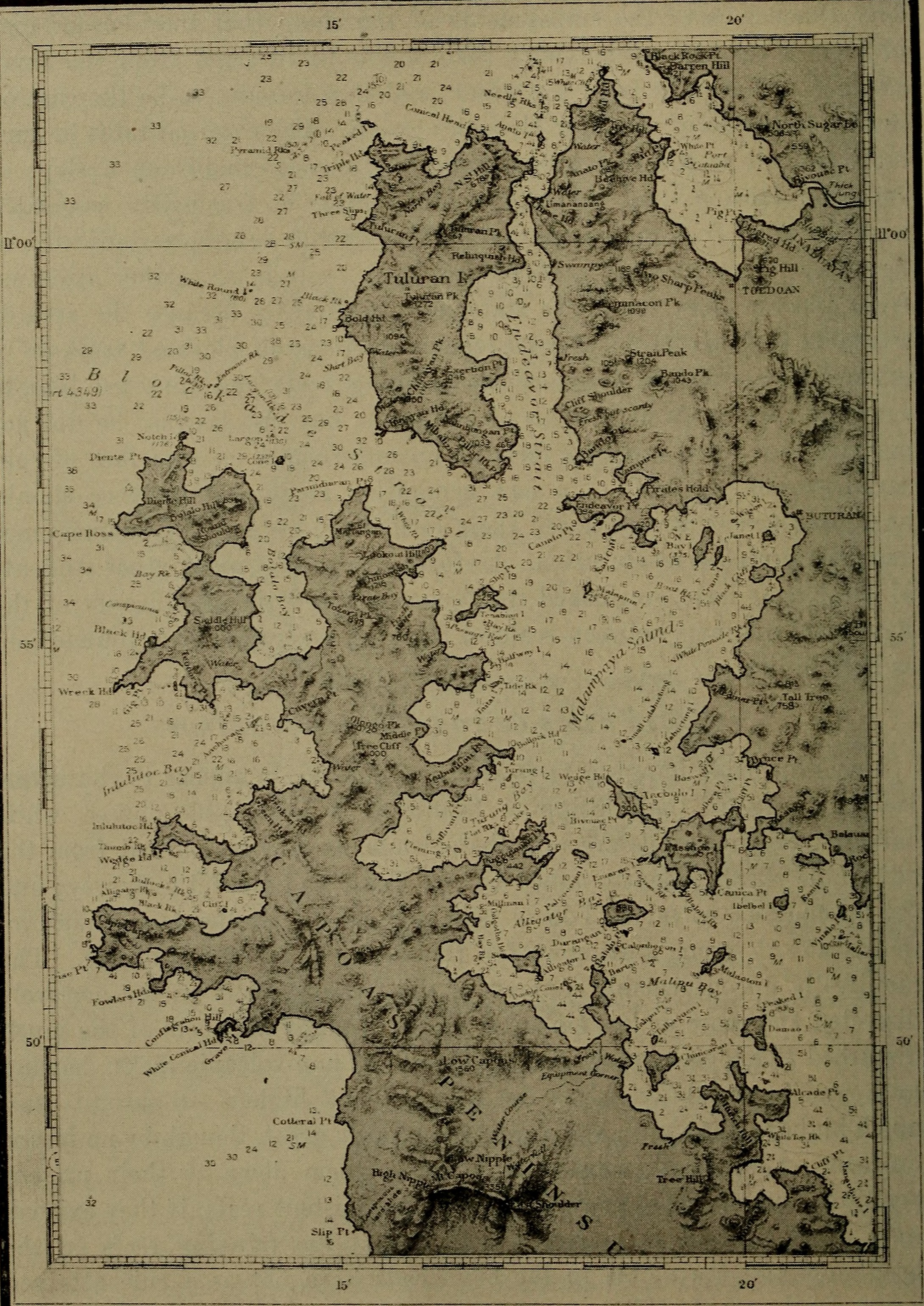 Title: Bulletin of the Geological Society of America Year: 1890 (1890s) Authors: Geological Society of America Subjects: Geology Publisher: (New York : The Society) Text Appearing Before Image: 516 W. M. DAVIS SUBSIDENCE OF REEF-EXCIKCLED ISLANDS i Text Appearing After Image: Figure 10.—Malampaya Sound, Palawan, Philippine Islands From Coast Survey chart 4316